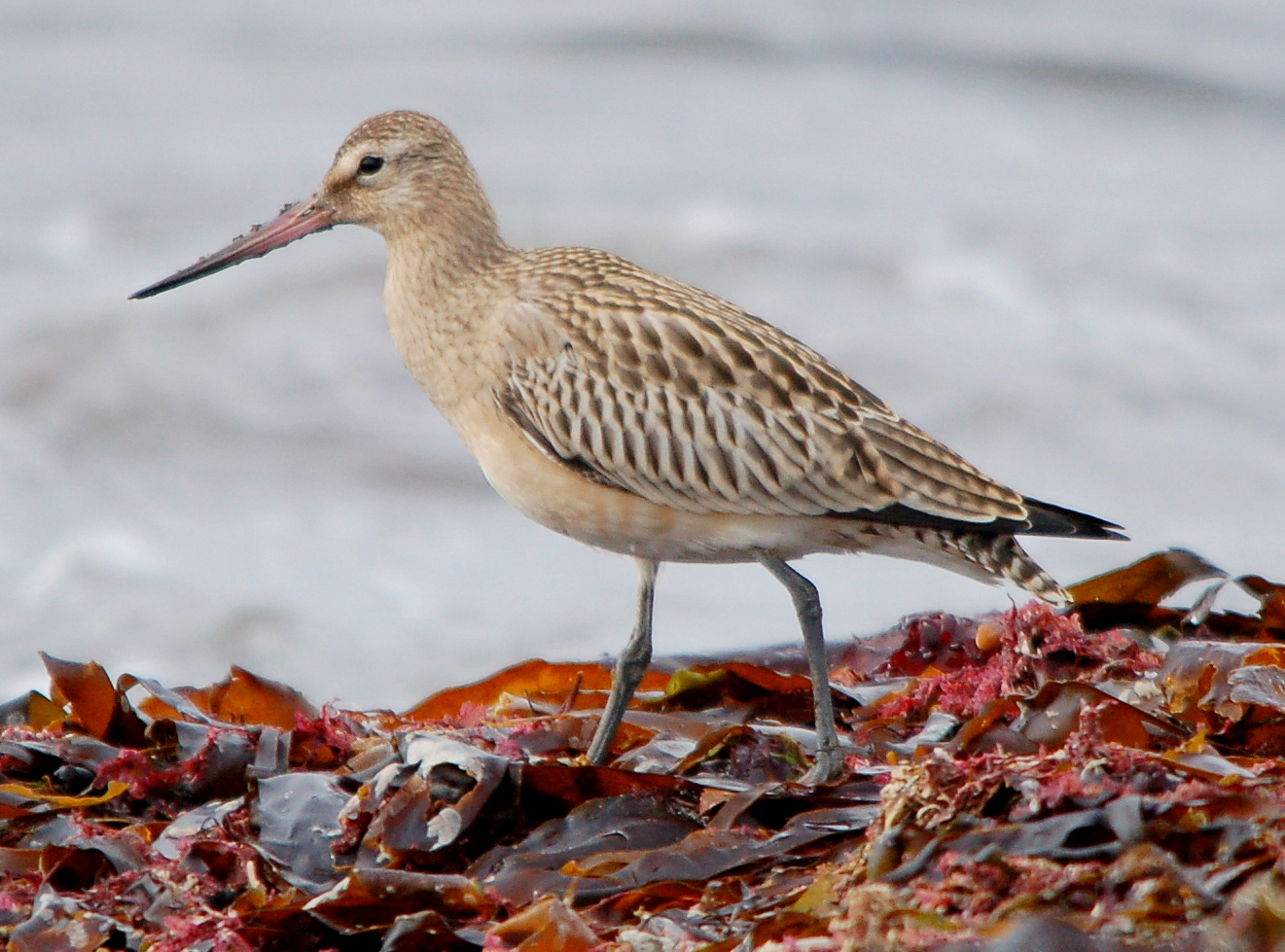 The Bar-tailed Godwit (Limosa lapponica)